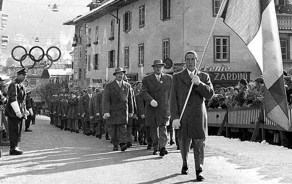 Italian team at the opening ceremony of 1956 Winter Olympics in Cortina d'Ampezzo, Italy